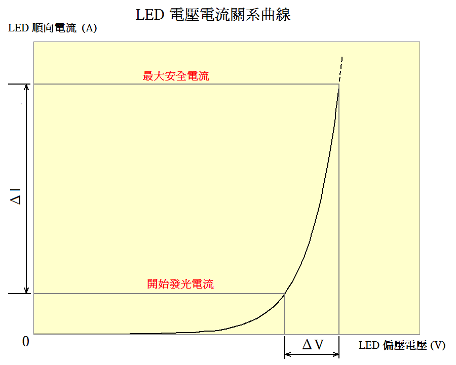 LED VI curve